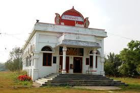 Mahabodhi Vihar in the area of Mahabodhi School(Trust)